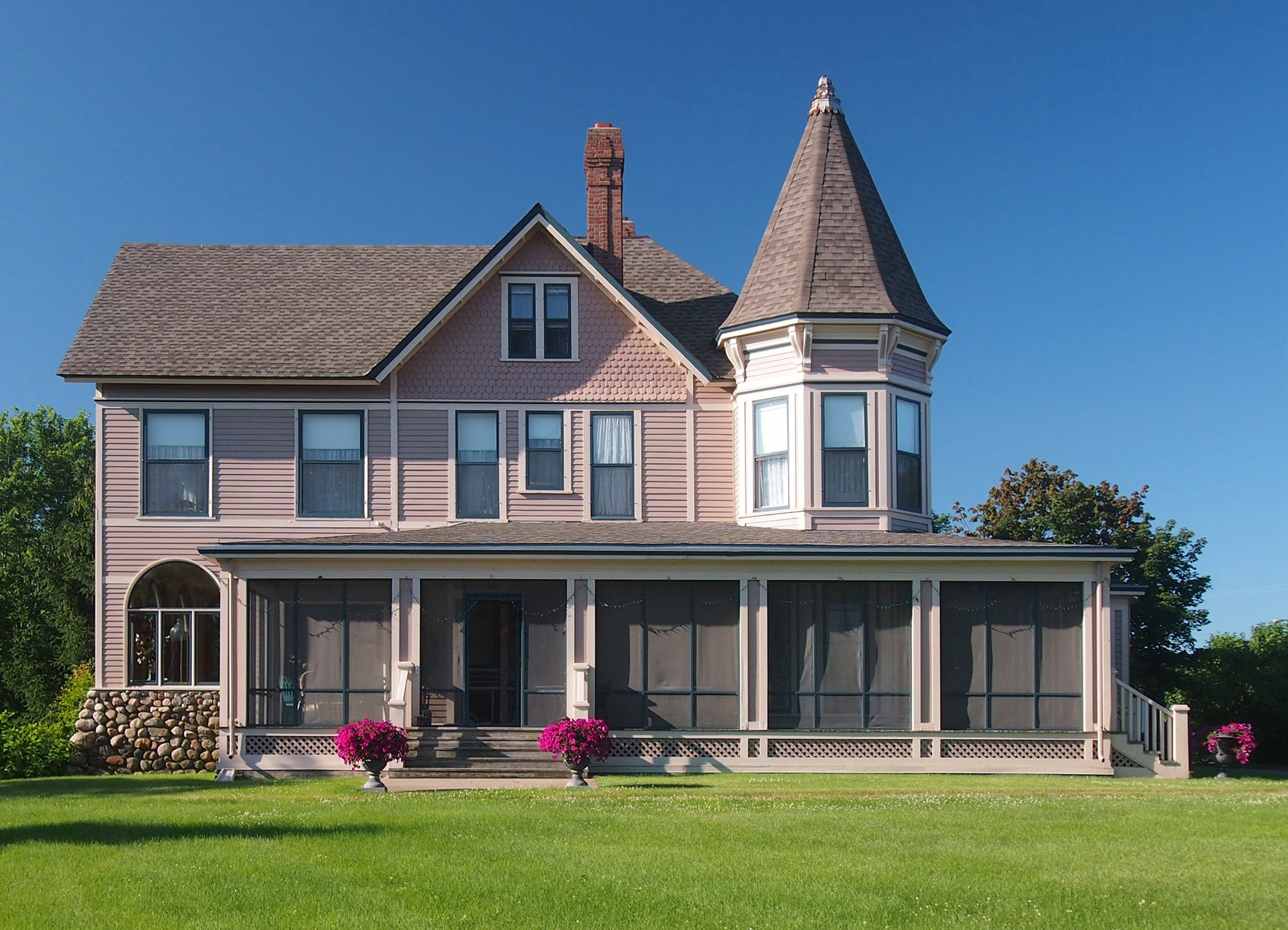 Historic Rand House, 506 Territorial Rd, Monticello, Minnesota, USA. Viewed from the northeast. Taken on private property with owner's permission.